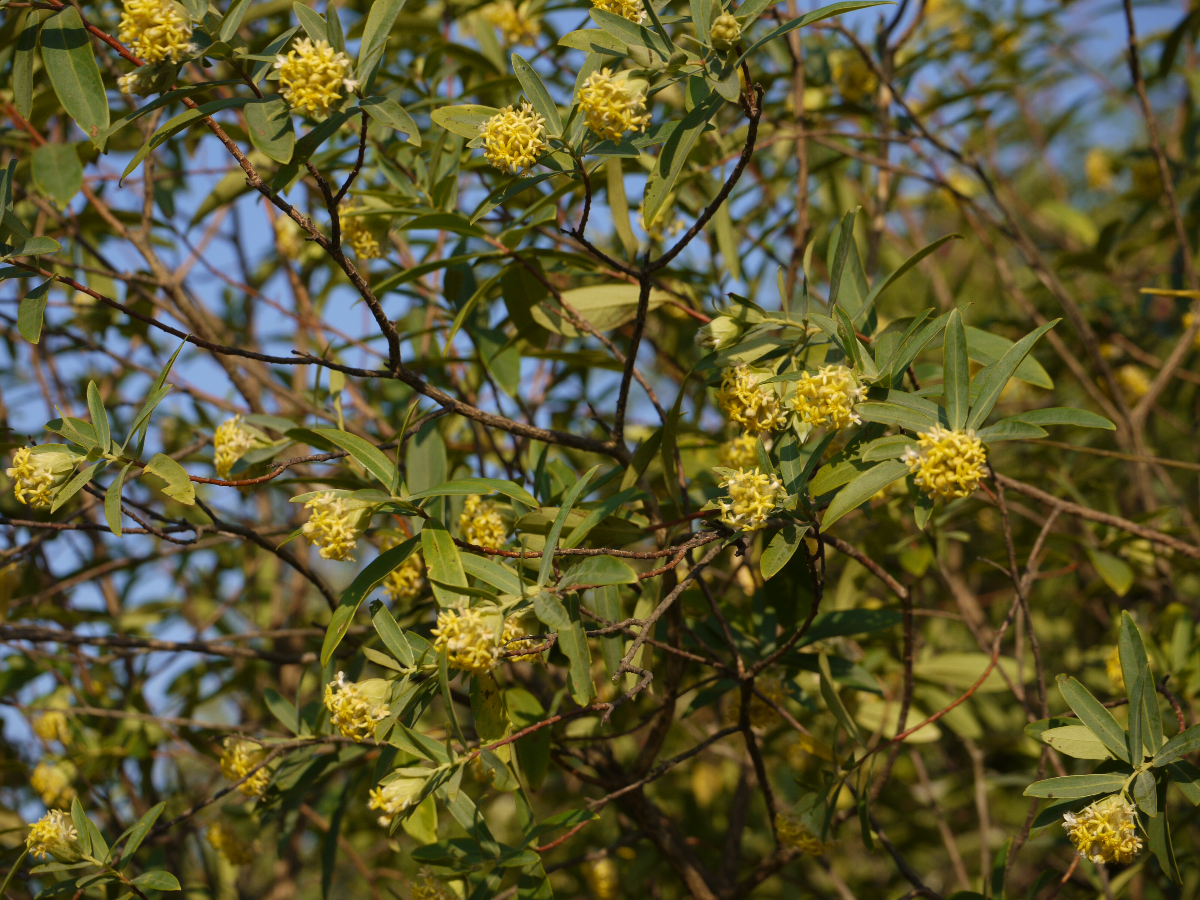 Thymeleaceae (daphne family) » Gnidia glauca NY-dee-uh -- pertaining to Gnidus (also spelled Knidos and Cnidus), in Caria (Asia Minor) GLAW-kuh -- bloom has thin powder (like plums) commonly known as: balsam tree, fish poison bush, woolly-headed gnidia • Kannada: mukkudaka, mukuthi, raami • Malayalam: nanju • Marathi: दांतपाडी datpadi, रामेठा rameta • Tamil: nacchinar References: Flowers of India • Common Indian Wild Flowers by Isaac Kehimkar • Flowers of Sahyadri by Shrikant Ingalhalikar